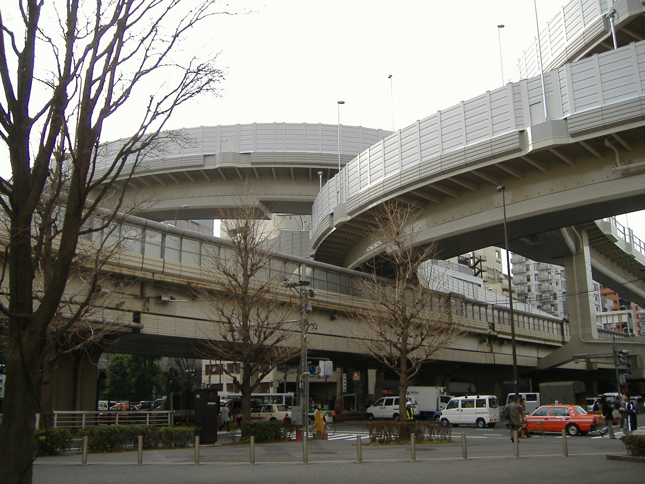 Nishi-Shinjuku-JCT(Tokyo,Japan)